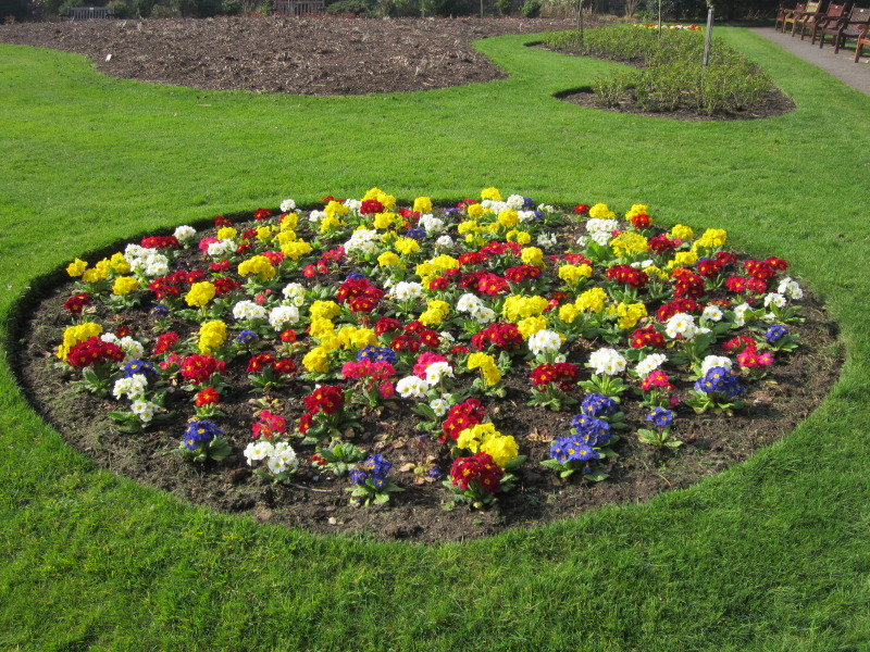 The Walled Garden at Reynolds Park, Woolton, Liverpool, England.